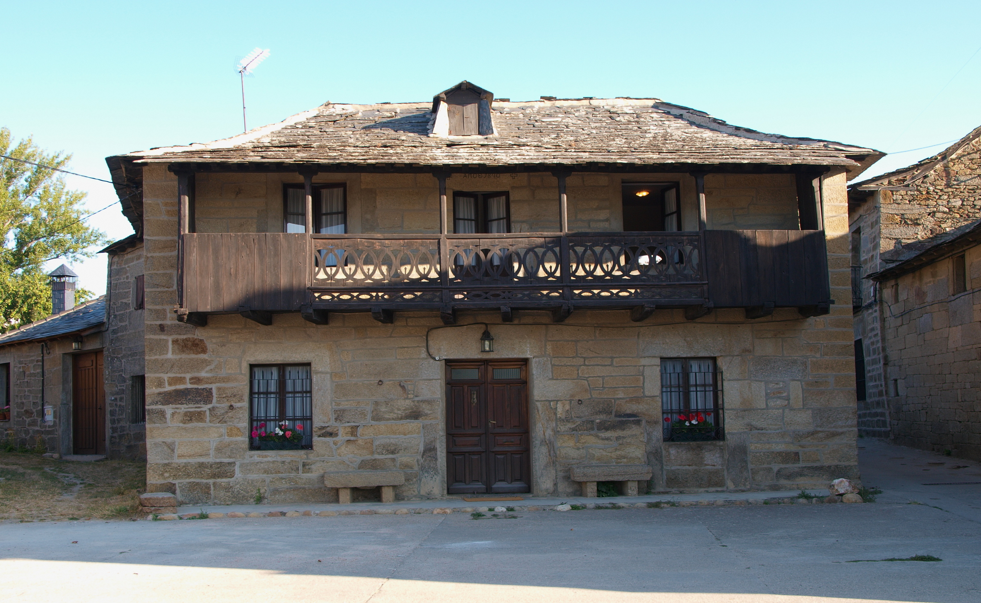 Traditional house in the town of Muelas de los Caballeros (Province of Zamora, Spain)